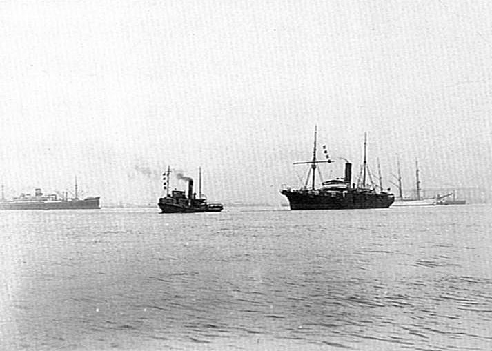 Last voyage of Japanese cable layer Okinawa-Maru from Kobe in July 1938.